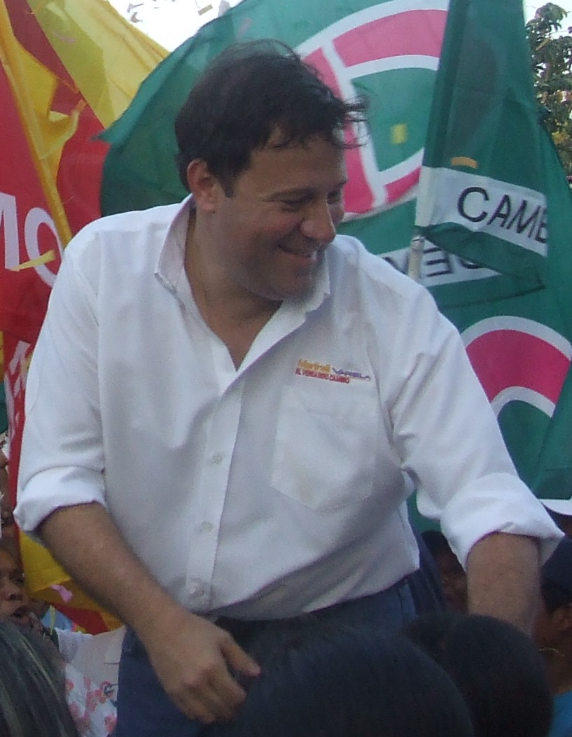 Juan Carlos Varela, vicepresident of Panama